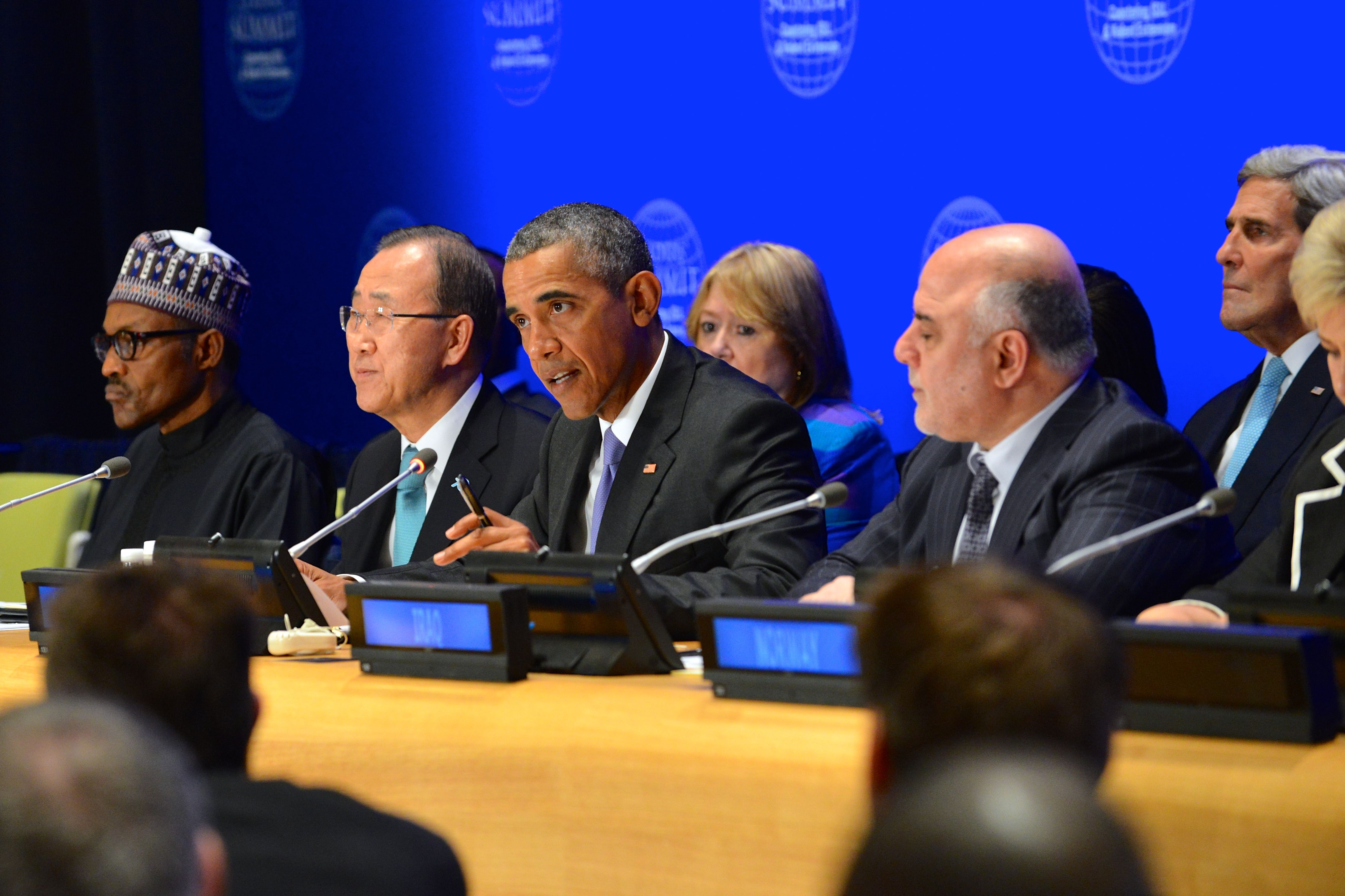 President Barack Obama delivers remarks at the Leaders’ Summit to Counter ISIL and Violent Extremism at the United Nations Headquarters in New York City on September 29, 2015. [State Department photo/ Public Domain]